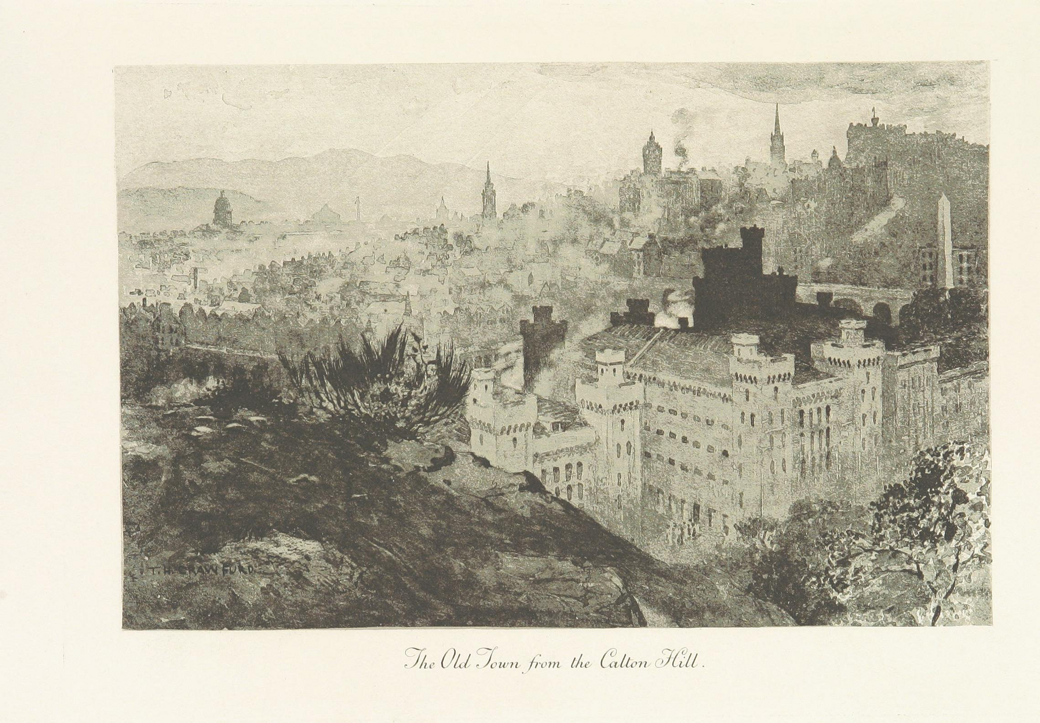 Image taken from: Title: "[Edinburgh. Picturesque Notes ... With etchings by A. Brunet-Debaines from drawings by S. Bough ... and W. E. Lockhart, etc.]", "Single Works" Author: Stevenson, Robert Louis Contributor: CRAWFORD, Thomas Hamilton. Shelfmark: "British Library HMNTS 010370.g.5." Page: 179 Place of Publishing: London Date of Publishing: 1896 Publisher: Seeley & Co. Edition: [Another edition.] With illustrations by T. H. Crawford. Issuance: monographic Identifier: 003501240